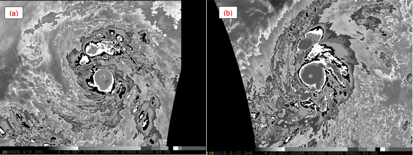 Comparison of Dvorak-enhanced infrared satellite imagery of Hurricanes Linda 1997 (left) and Patricia 2015.